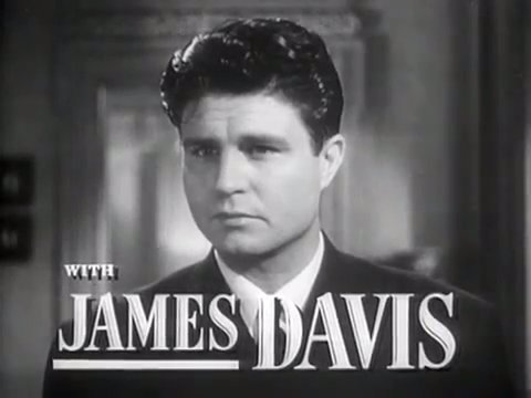 Cropped screenshot of Jim Davis from the trailer for the film Winter Meeting (1948).